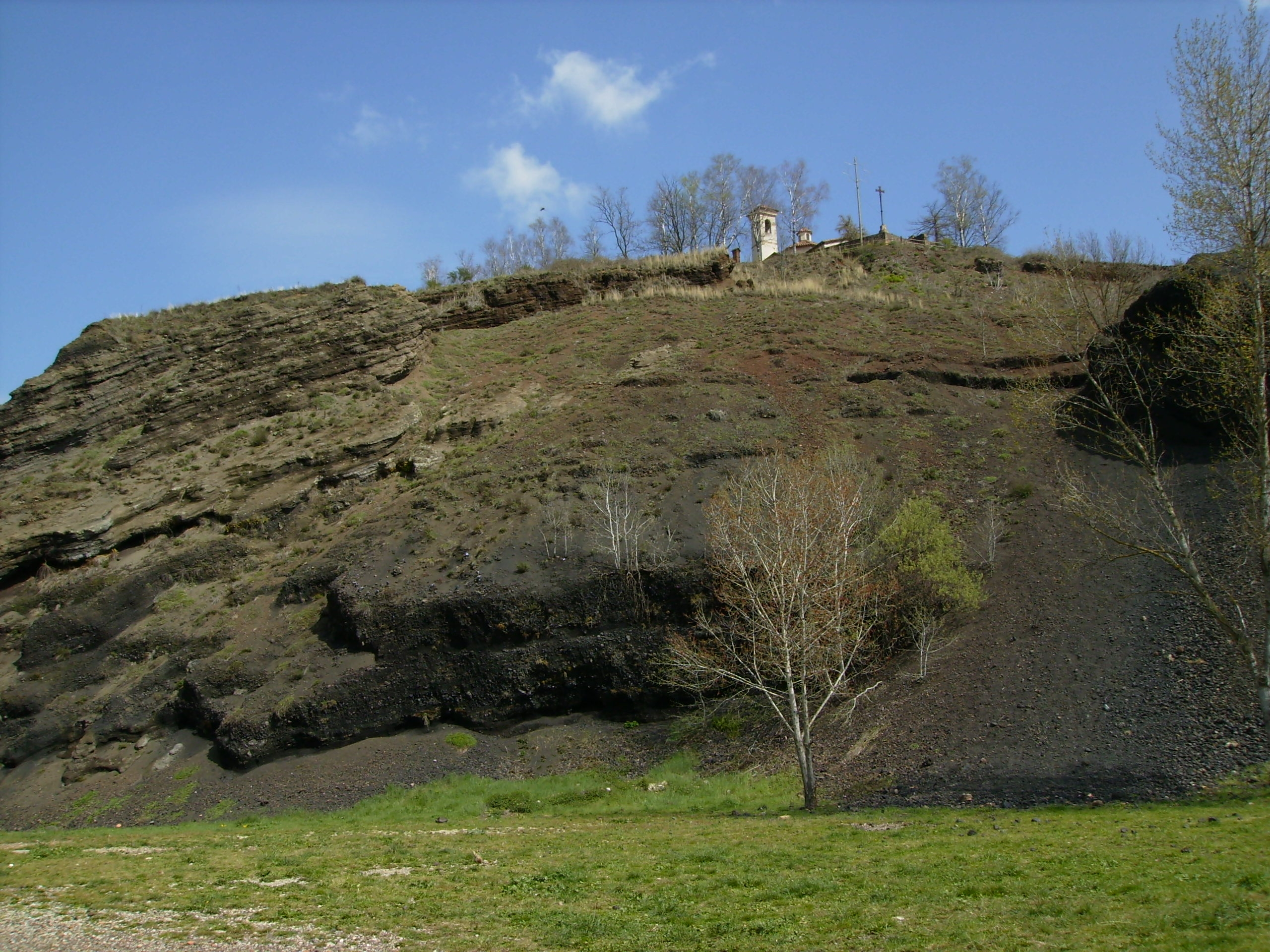 Montsacopa volcano in Olot (Catalonia)